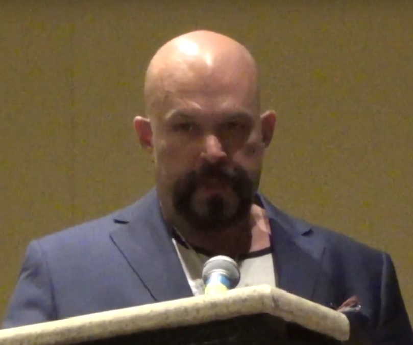 American conservative commentator Kevin D. Williamson hosting the FreedomFest panel 'Bridging the Racial Divide' focusing on communicating the ideas of liberty with people of other cultures. Friday 15 July 2016, Planet Hollywood Resort and Casino - Las Vegas, NV. Filmed using a Sony HDR-CX220